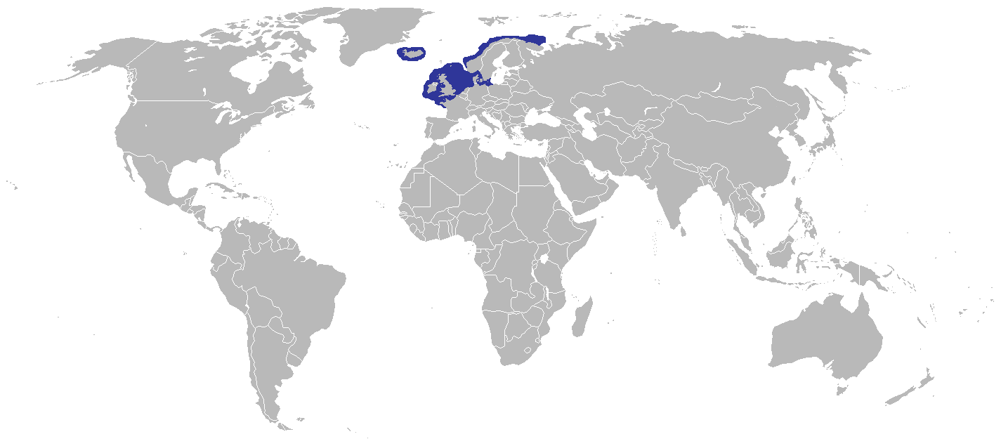 Blank map of the world showing 2005 borders (i.e. before the independence of Montenegro and Kosovo). Based on Image:BlankMap-World.png; as it is PD, this is too. This map is accurate for the period between May 20, 2002 (East Timor independent from Indonesia), and June 3, 2006 (Montenegro independent from Serbia and Montenegro) — notwithstanding the renaming of Yugoslavia to Serbia and Montenegro on February 3, 2003. Previous map: Image:BlankMap-World-2000.png